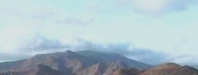 Arrei Mountains from Ali Sabieh